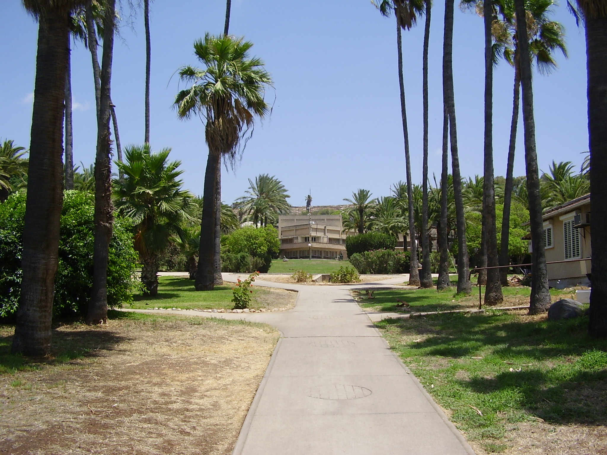 palms avenue and old dining house in kibbutz tel-yosef